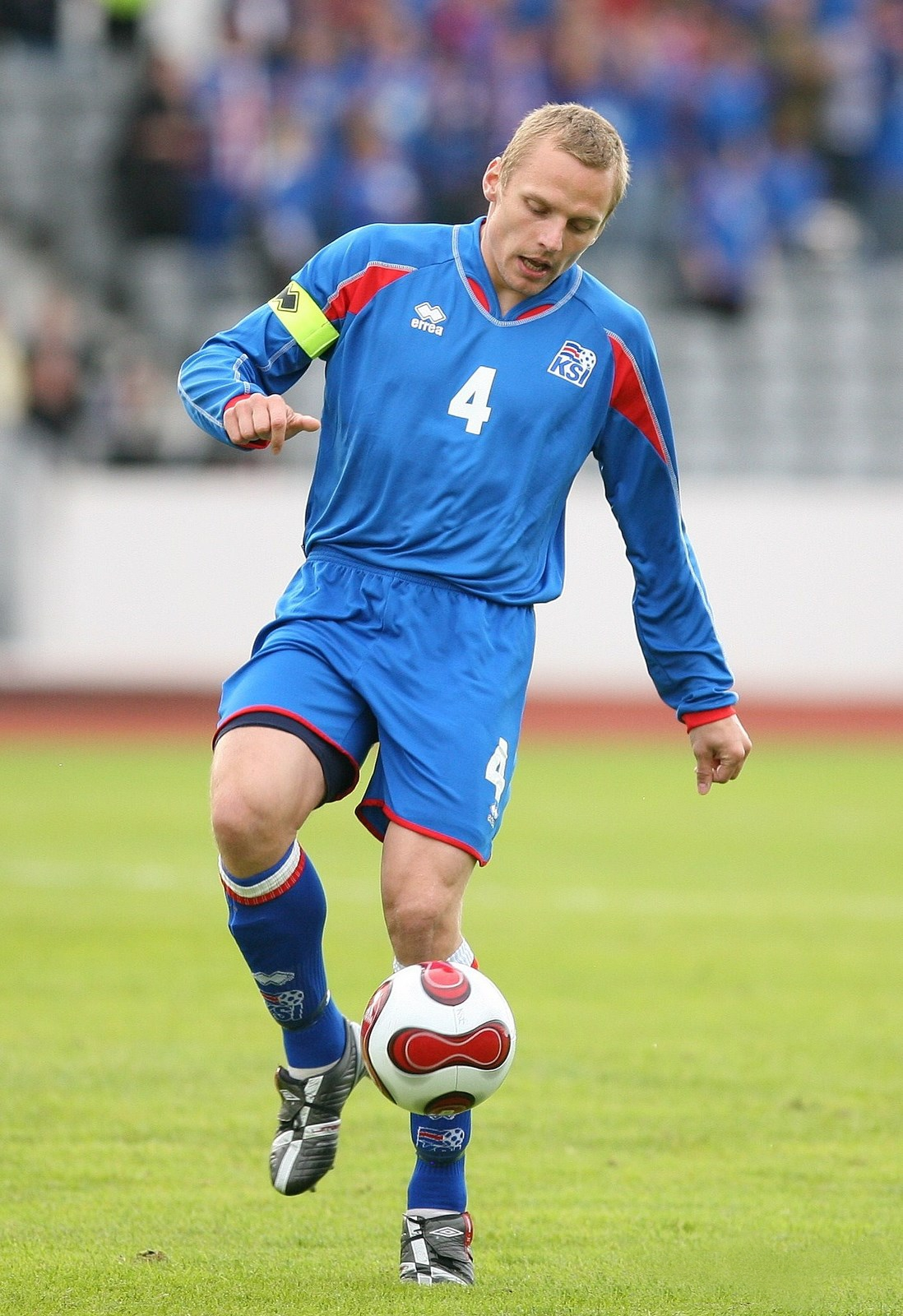 Iceland football player Kristján Örn Sigurðsson during match against Wales